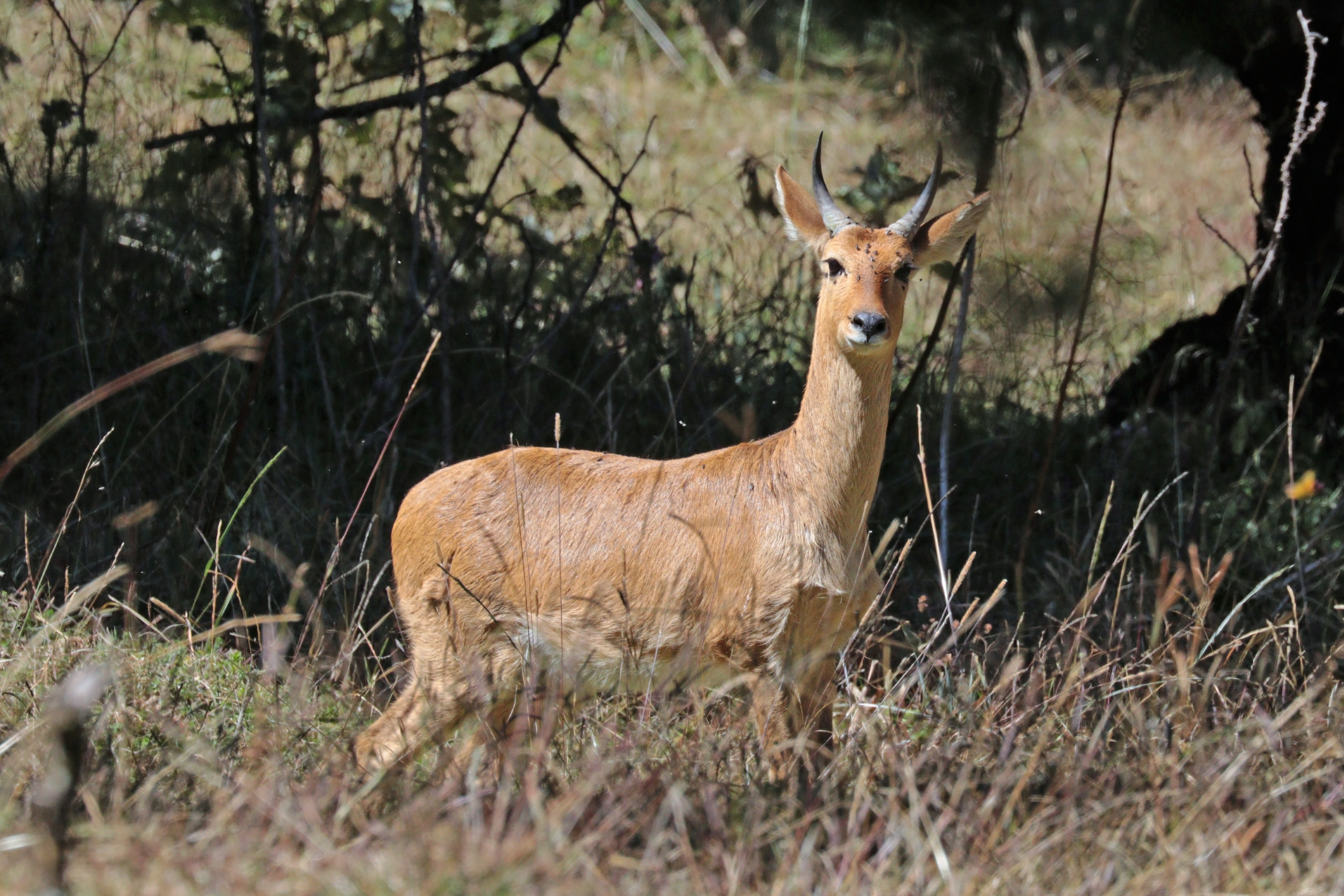 Abyssinian bohor reedbuck (Redunca redunca bohor) male, Bale Mountains National Park, Ethiopia